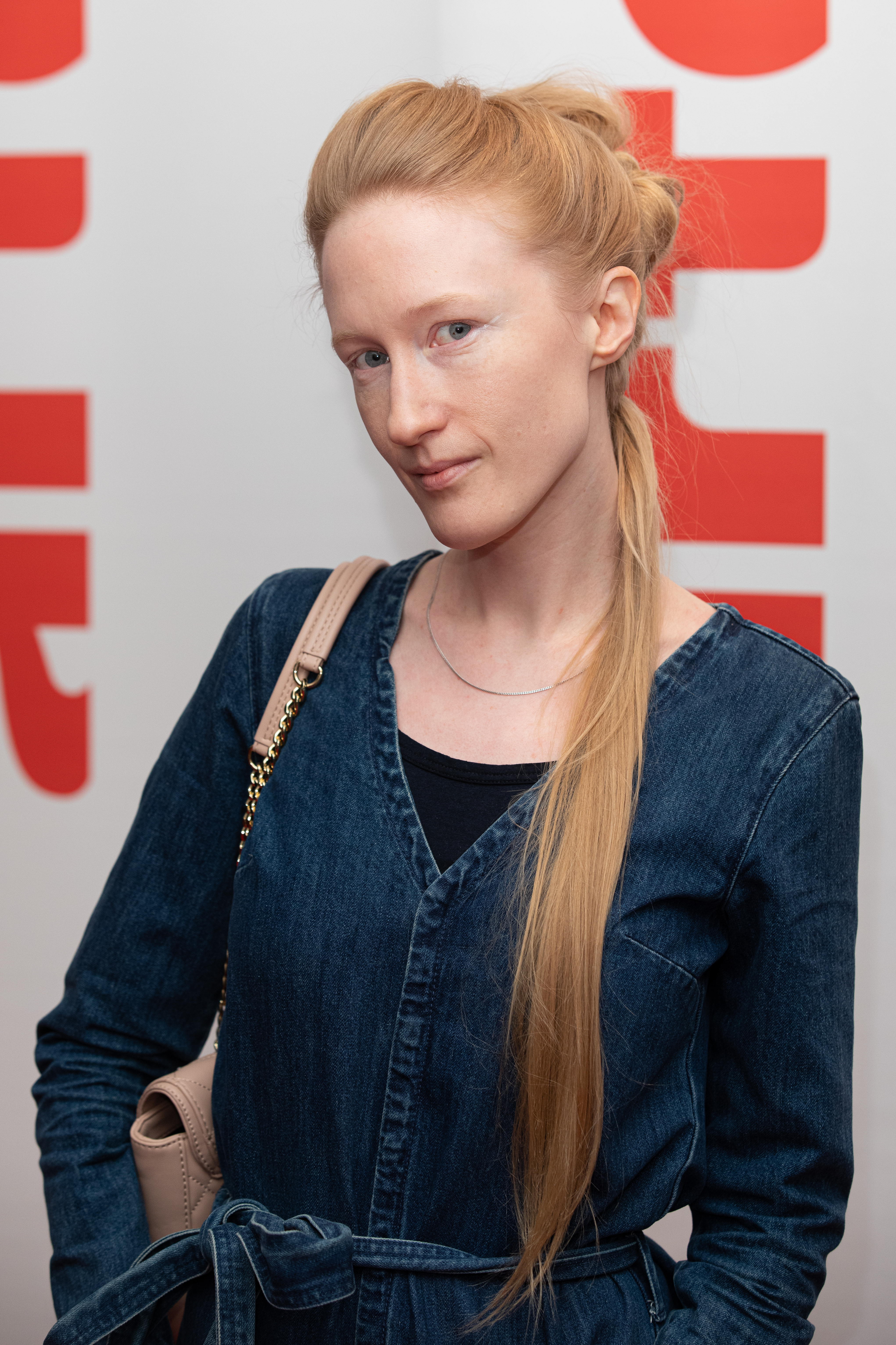 Britta Thie at the arte reception of the 2019 Berlin Film Festival